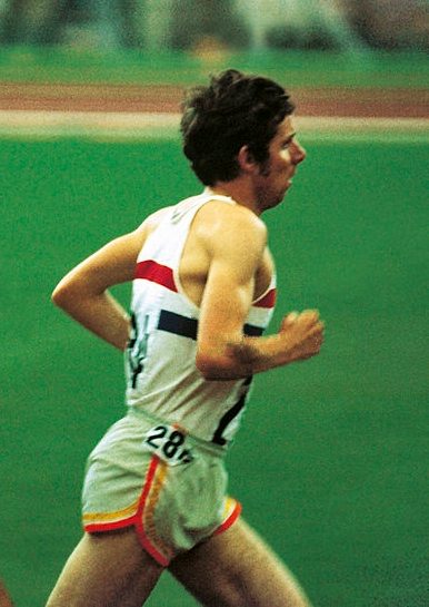 Brendan Foster (UK) competing in the semifinal 1500 metres. Munich (Germany), September 9, 1972.